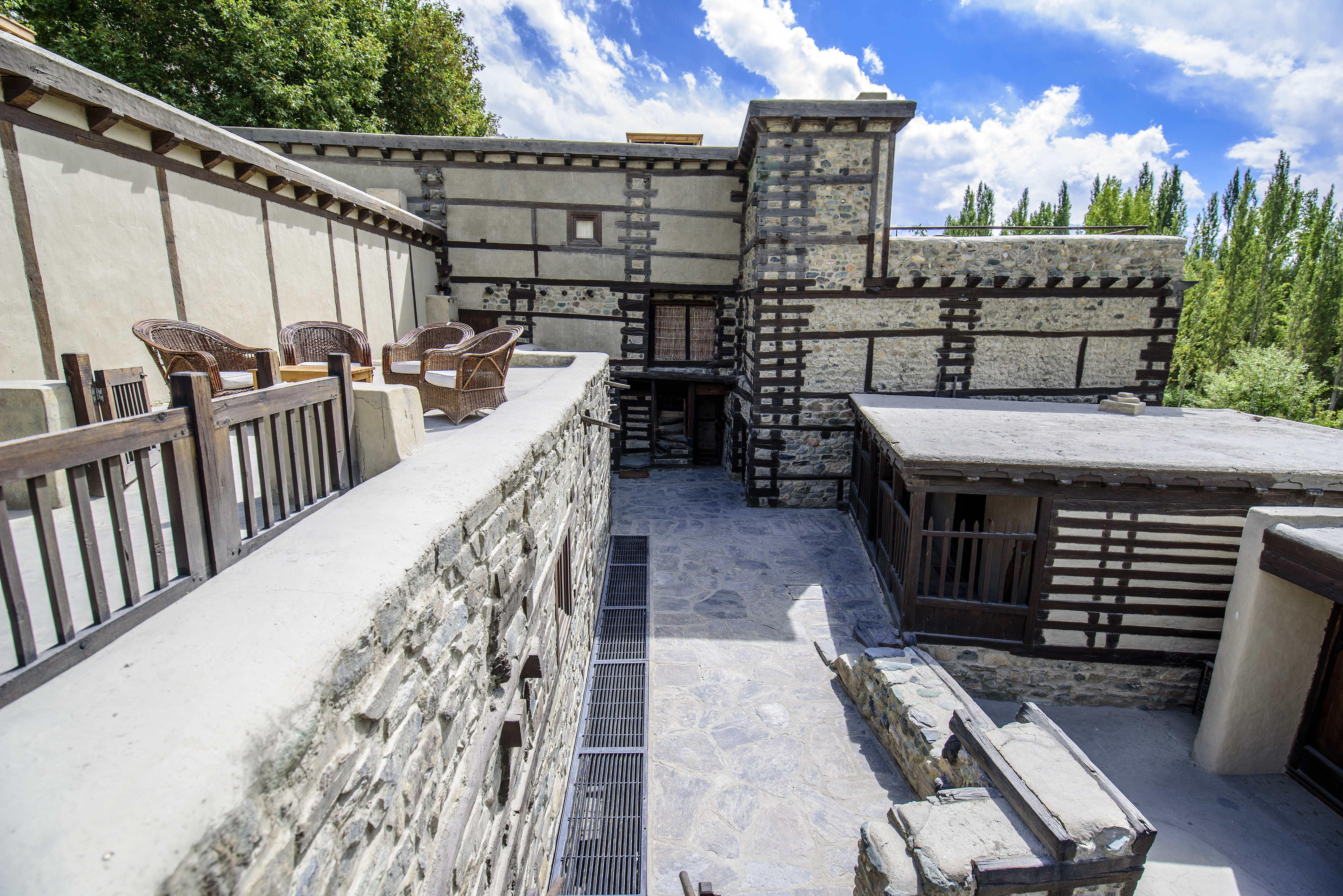 Shigar Fort This is a photo of a monument in Pakistan identified as the GB-21